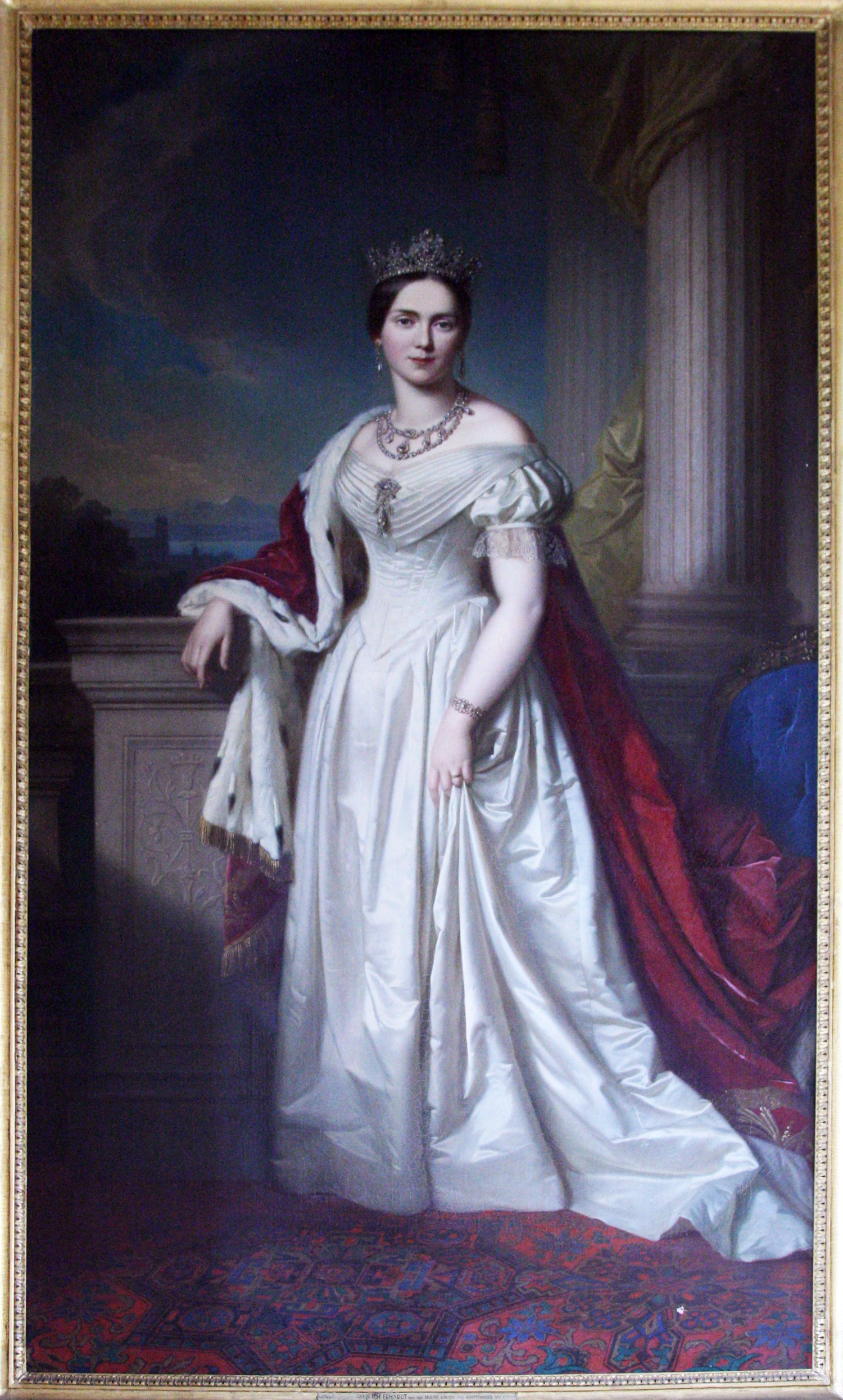 Portrait of Pauline von Württemberg (1800-1873)